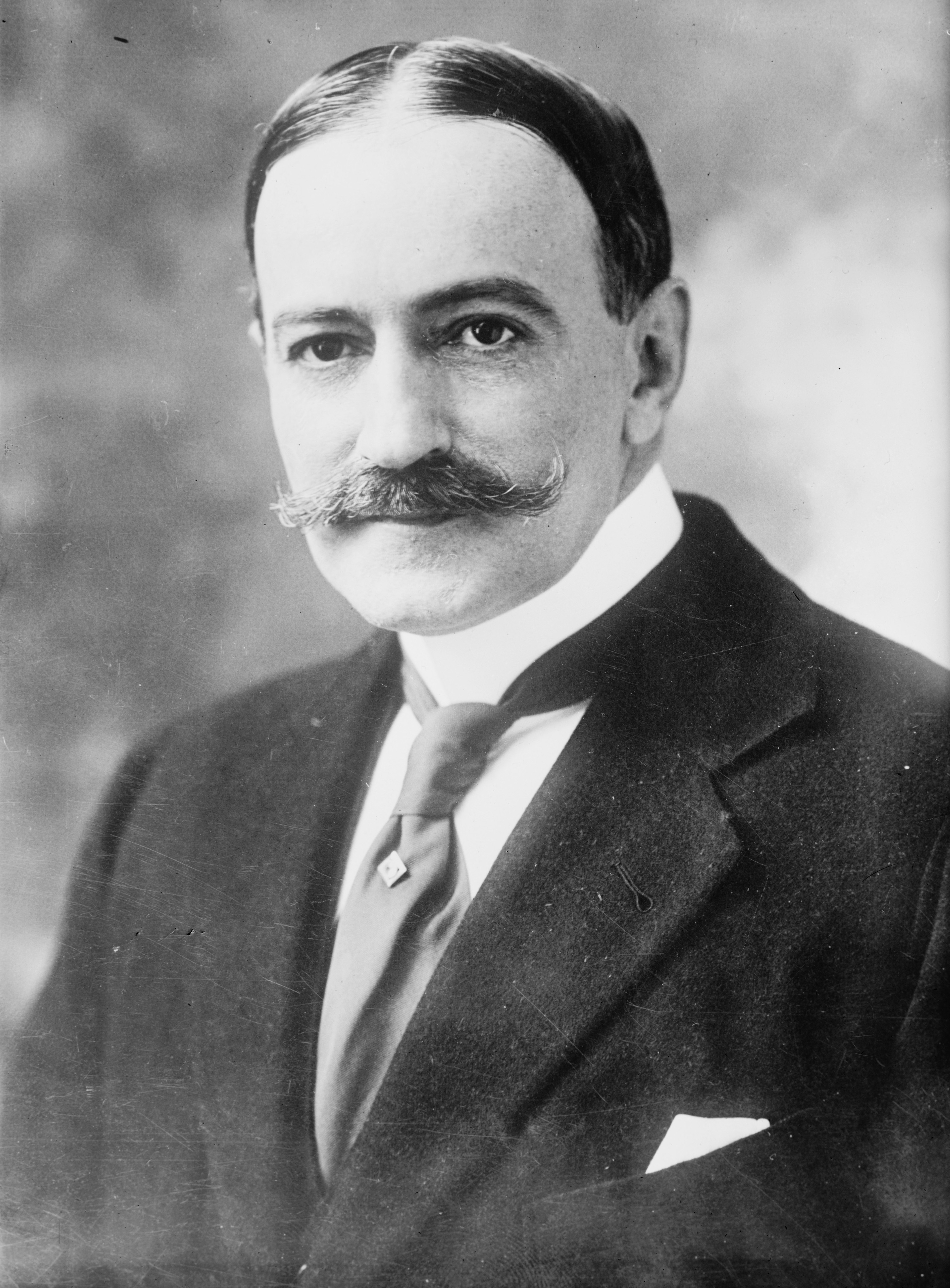 Carlos Manuel de Céspedes y Quesada circa 1914